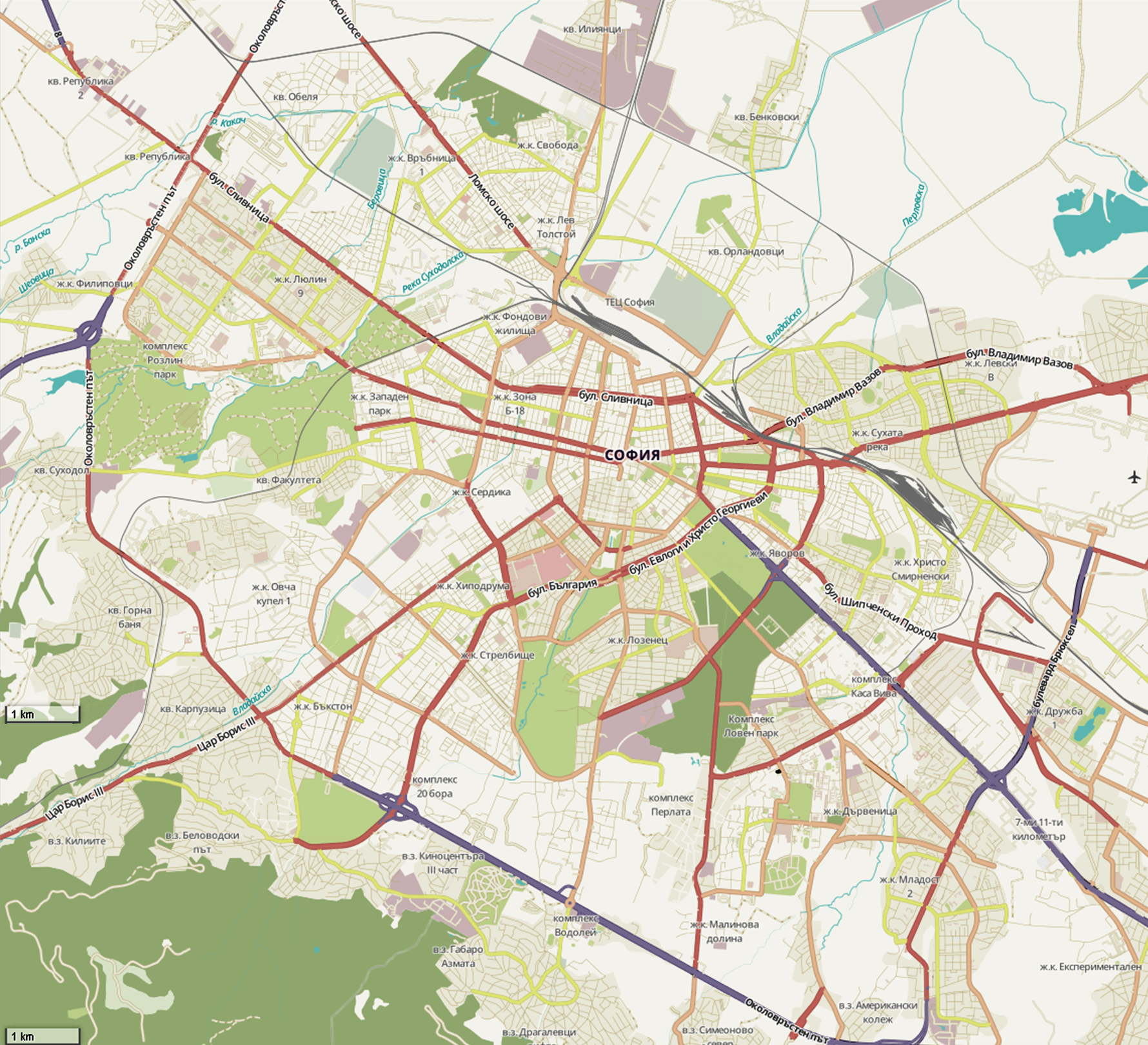 A map of the Bulgarian capital Sofia, including all but its very furthest detached suburbs. This map of Sofia was created from OpenStreetMap project data, collected by the community. This map may be incomplete, and may contain errors. Don't rely solely on it for navigation.